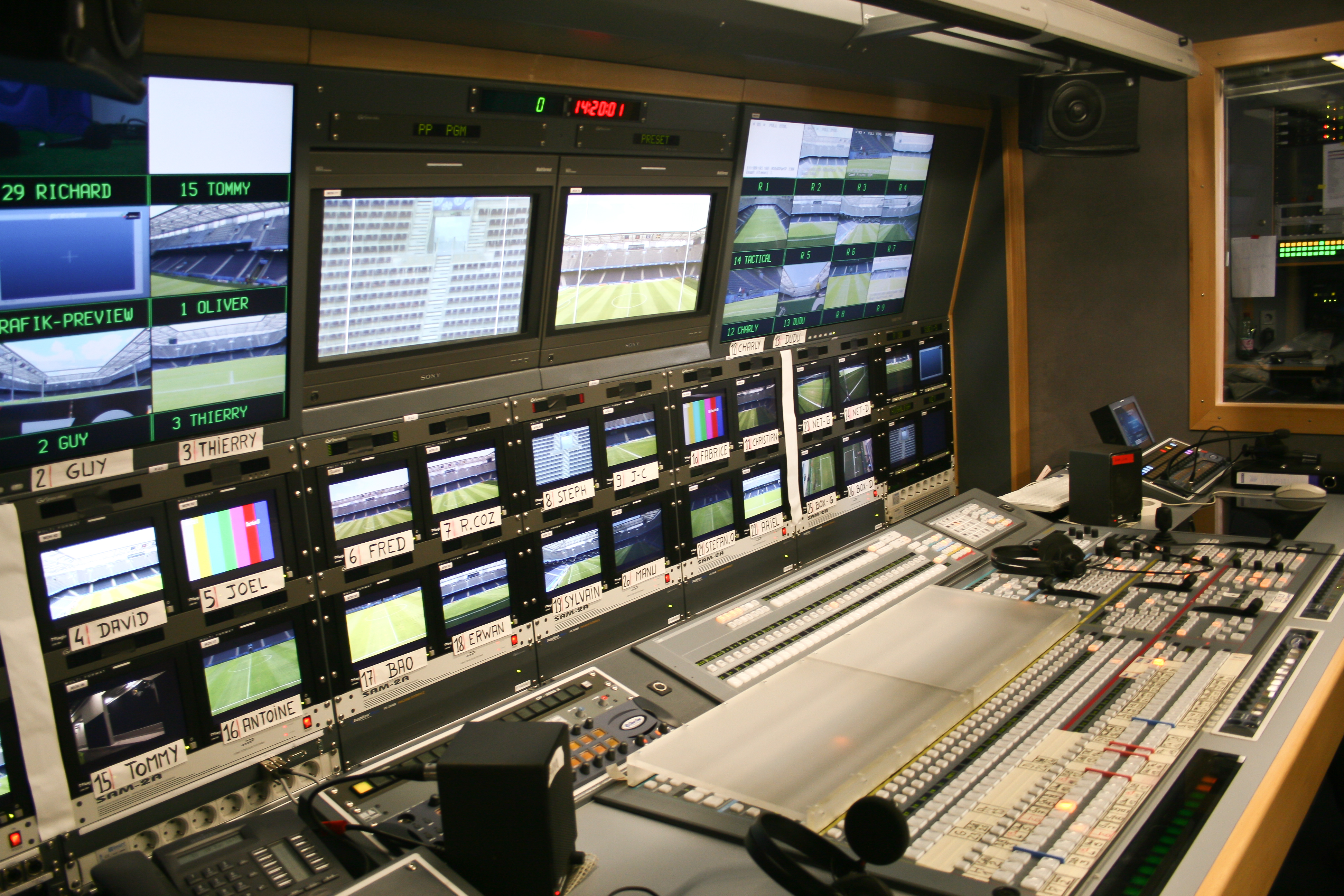 Television broadcast at UEFA Euro 2008 in Salzburg